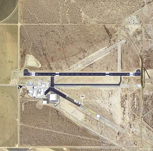 USGS digital orthophoto of Grey Butte Field Airport in California